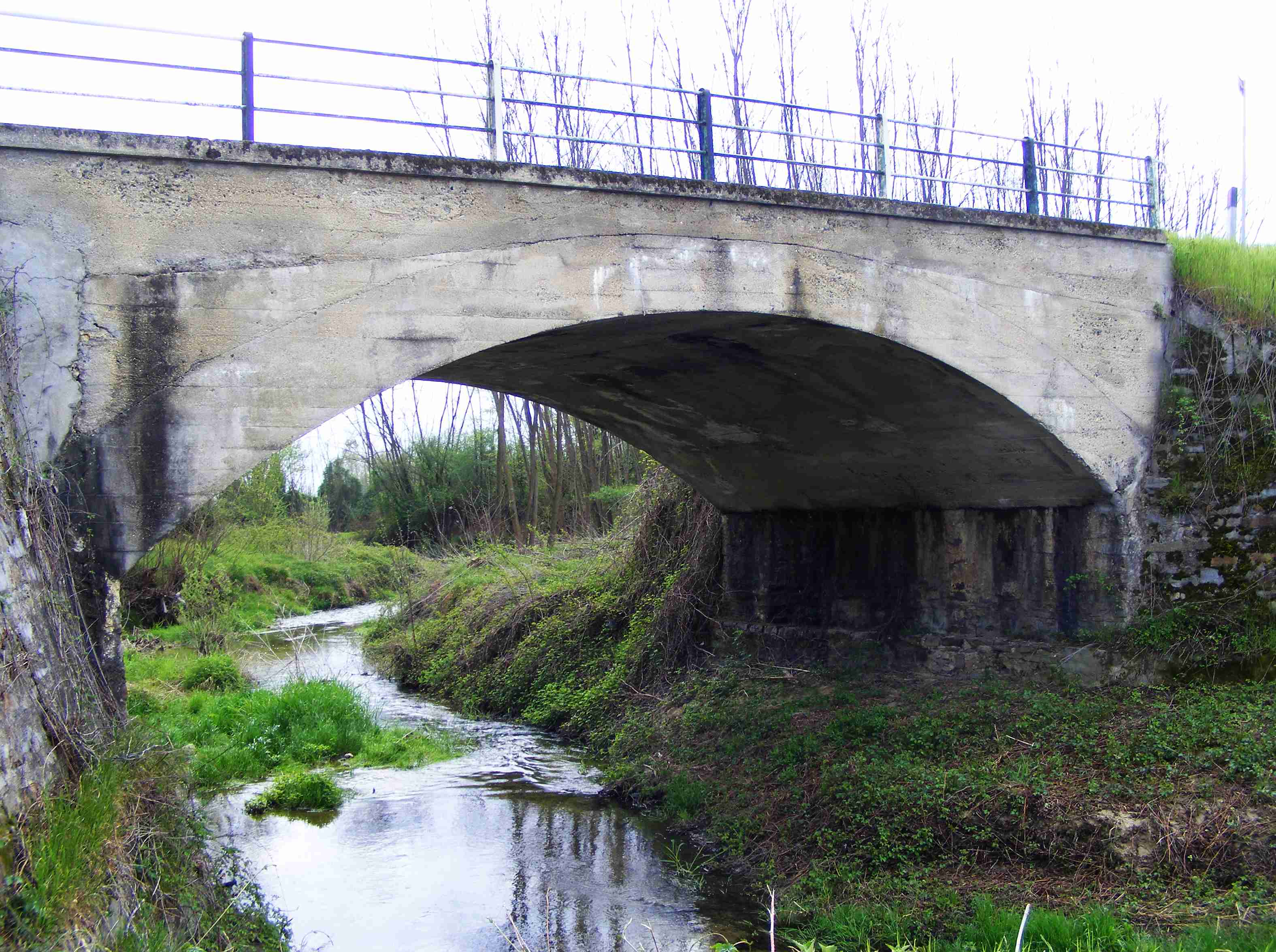 SP 146 bridge on Noce creek (Cumiana, TO, Italy)